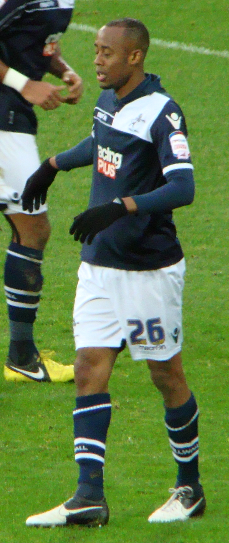 Nadjim Abdou. Image cropped from original at flickr.